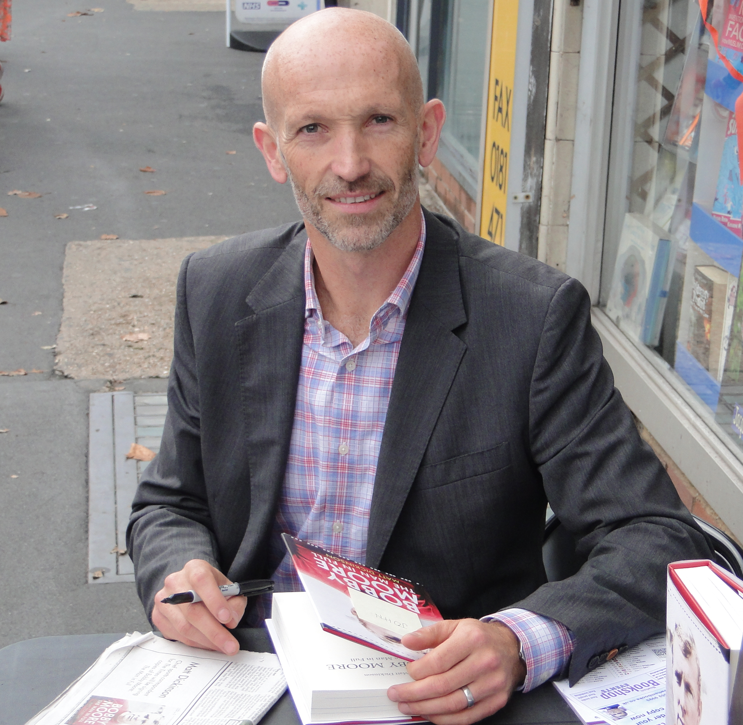 English journalist and sports writer, Matt Dickinson, at a book signing for his book on Bobby Moore, at a bookshop in Newham, London